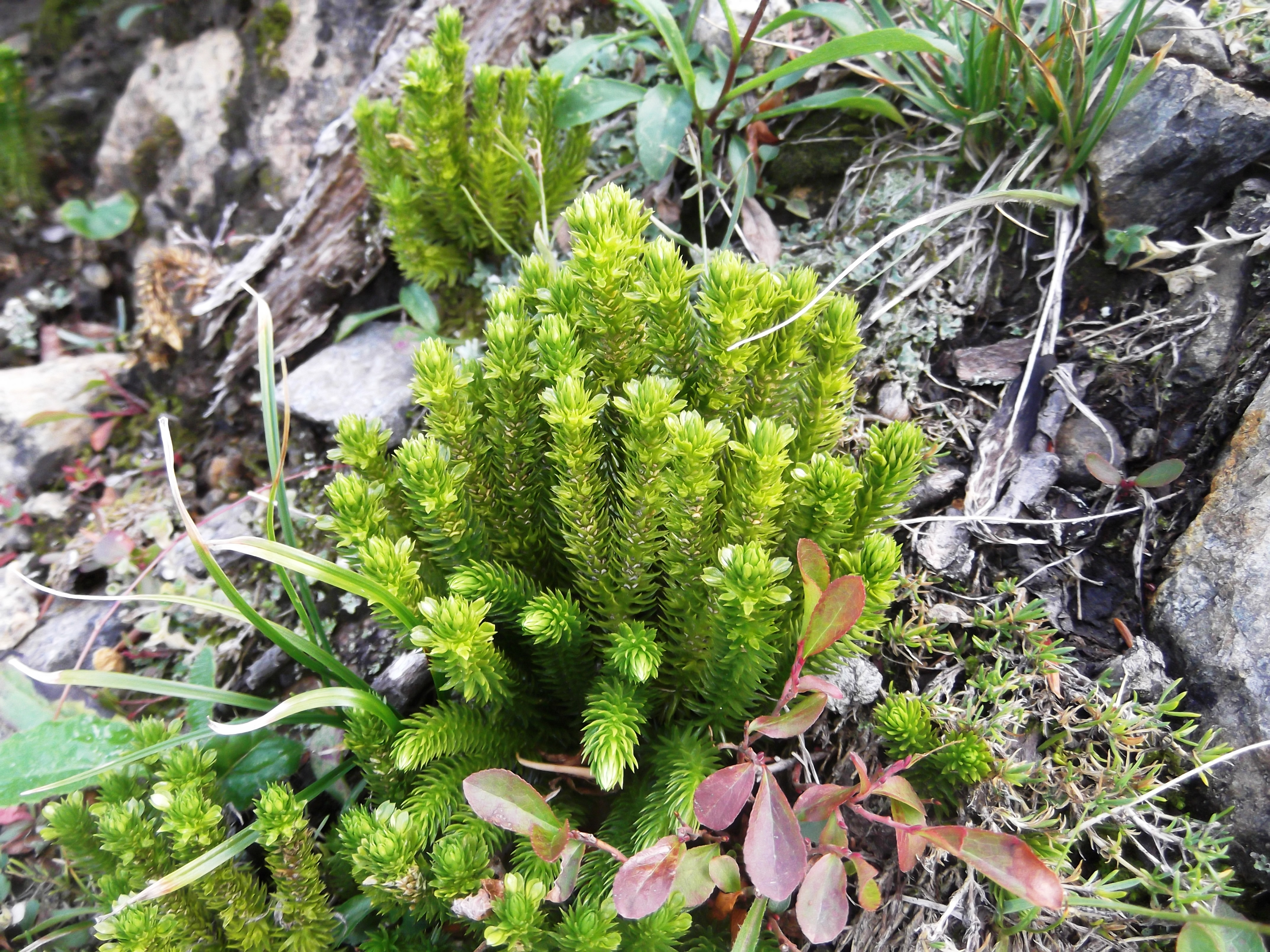 Firmosses (Genus Huperzia), possibly Huperzia haleakalae Map of area s20130909 467